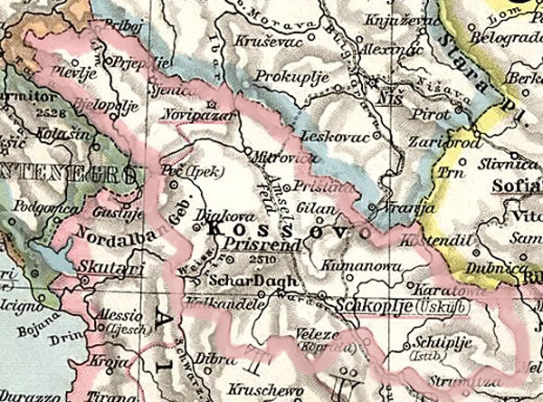 Kosovo Vilayet in 1905